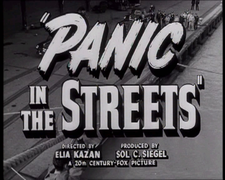 Panic in the Streets is a black and white, 96-minute film directed by Elia Kazan and released in 1950 by 20th Century Fox. It is film noir semidocumentary shot exclusively on location in New Orleans, Louisiana.